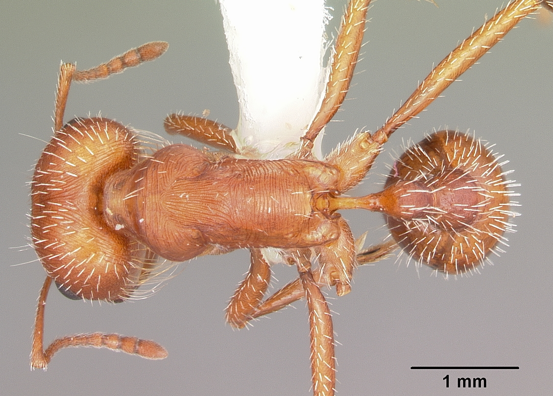 Dorsal view of ant Pogonomyrmex comanche specimen casent0104840.